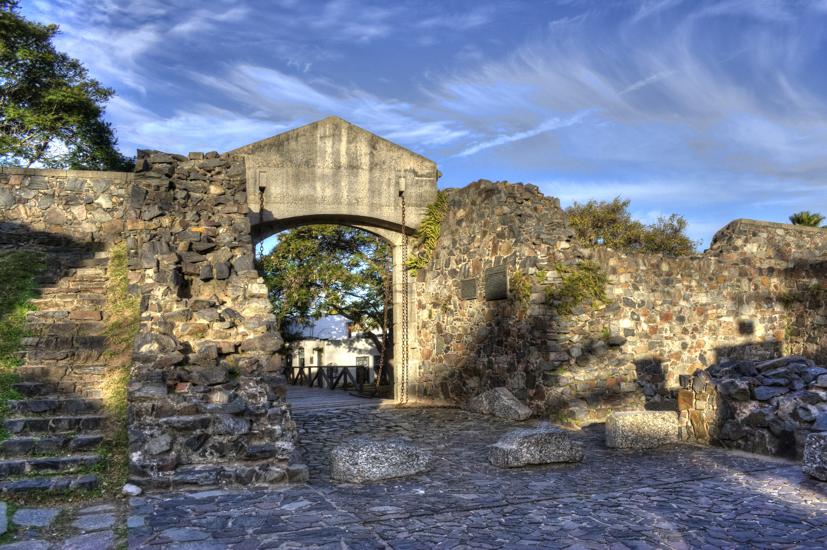 Taken by Herbert Brant on June 10, 2010; View of the Portón de Campo and the city walls.